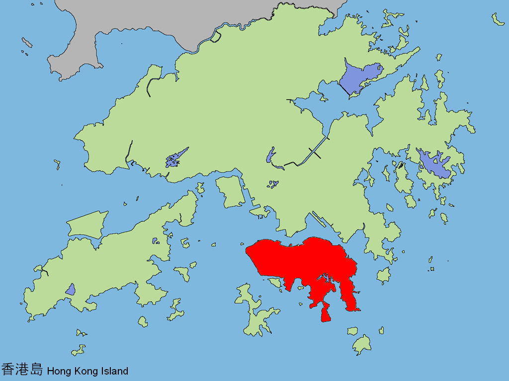 Location of HK Island in Hong Kong 中文（香港）: 香港島位置。